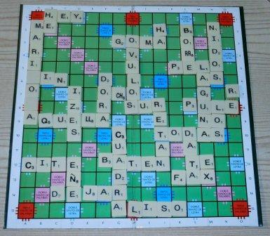 Scrabble complete Author: ZorphDark